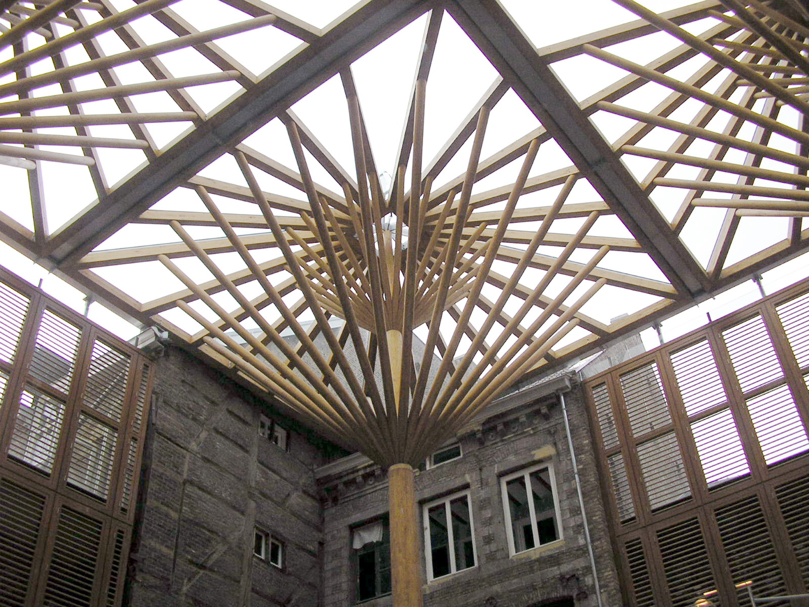 Maastricht, the Netherlands. Inside shopping centre Mosae Forum, near the market square.